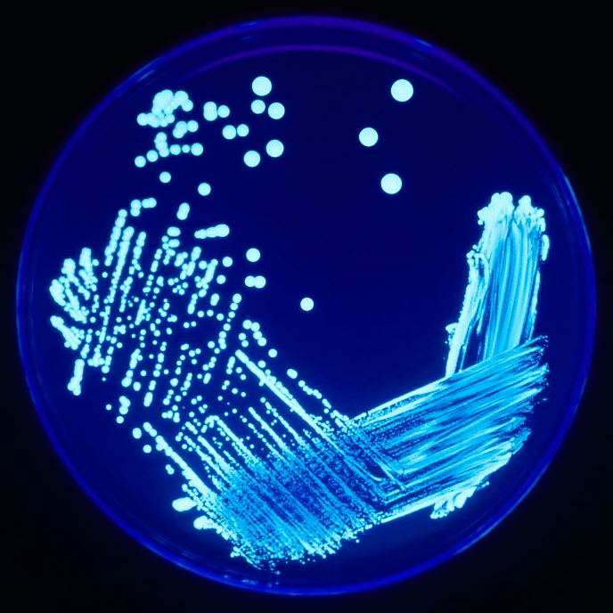 Legionella sp. colonies growing on an agar plate and illuminated using ultraviolet light to increase contrast.